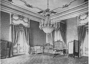 The bedroom in the first royal suite in the Royal Castle of Budapest.